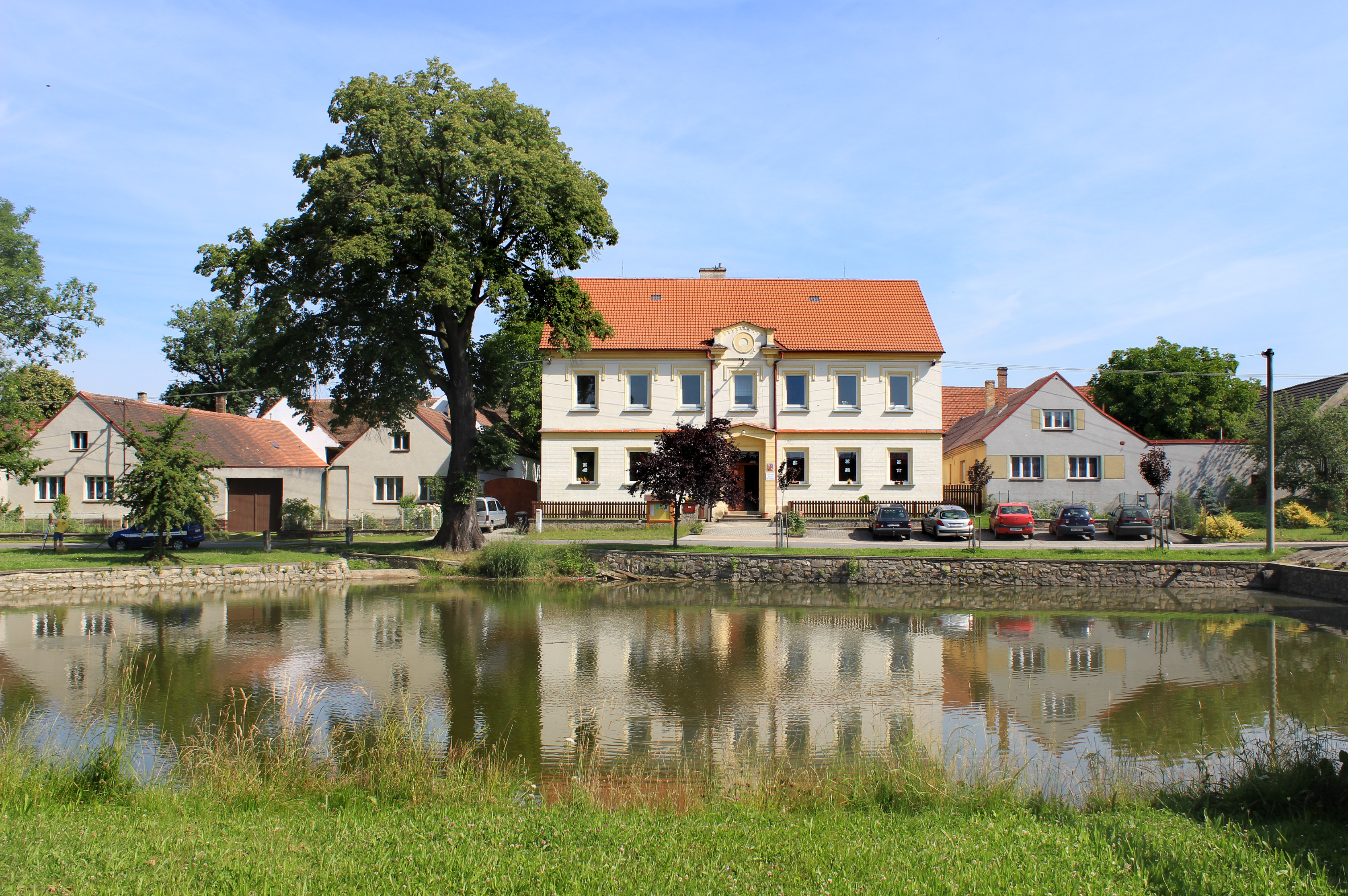 Elementary school and kindergarten in Plavsko, Czech Republic.